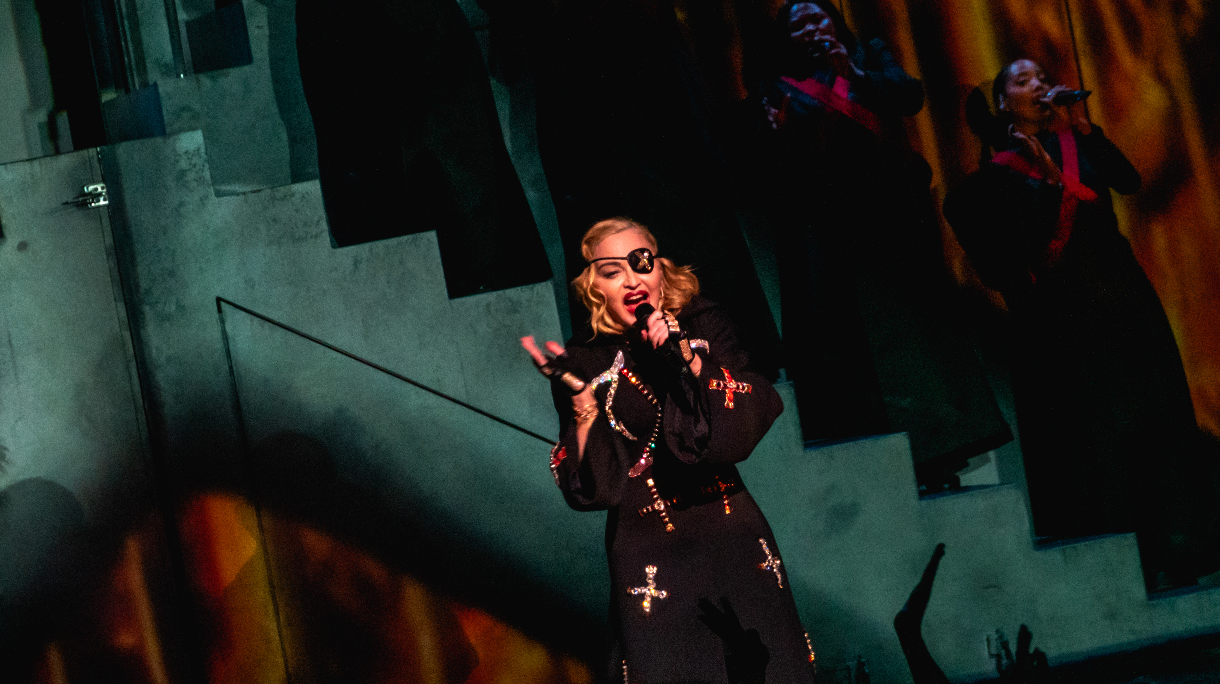 Madonna - London Palladium - Sunday 16th February 2020